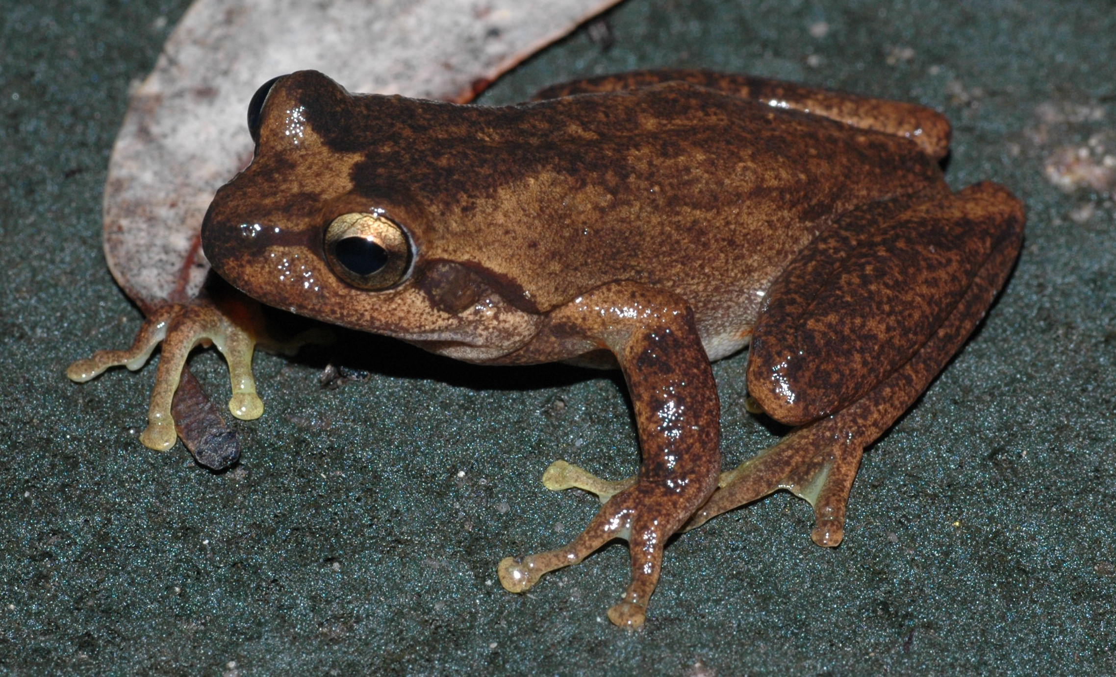 A Littlejohn's Tree Frog (Litoria littlejohni)